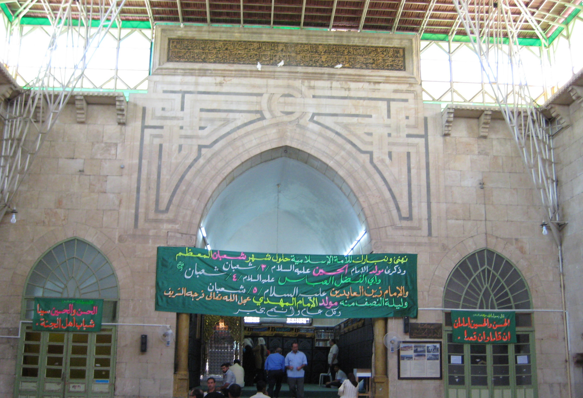 Main hall of the Masjid al-Nuqtah in Aleppo, Syria.